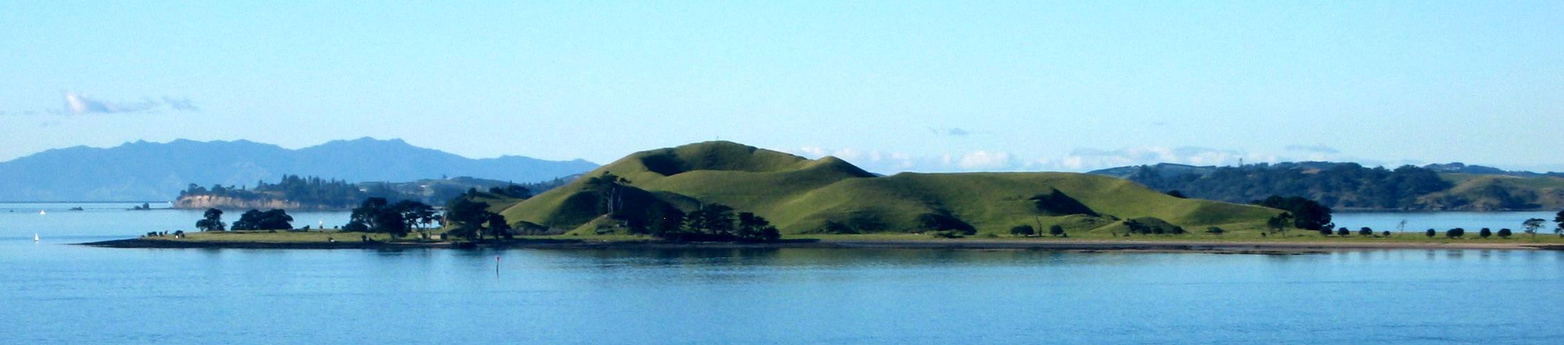 The volcanic cones and lava fields of Browns Island, Auckland, viewed from Achilles Point.